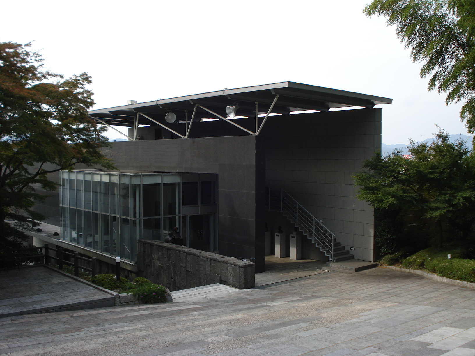 Kasama Nichido Museum of Art Main Building (Kasama-city, Ibaraki, Japan)